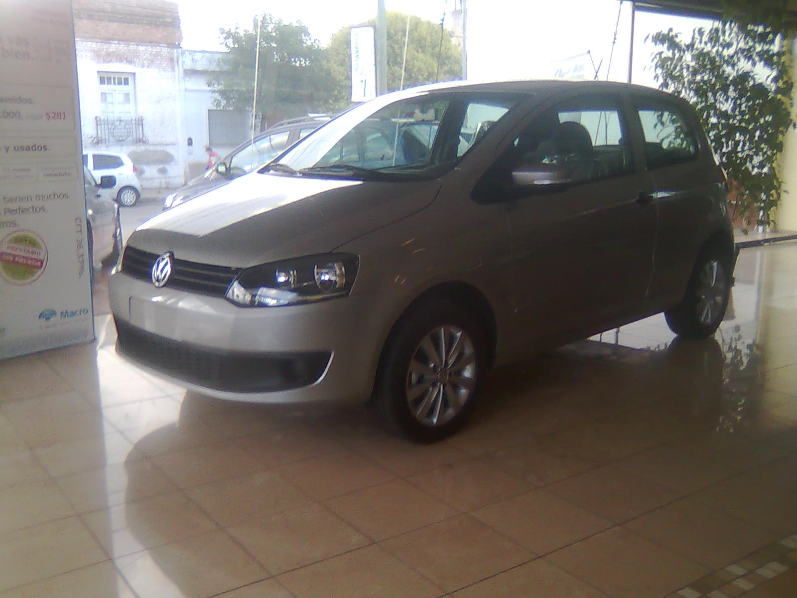 VW Fox 2012